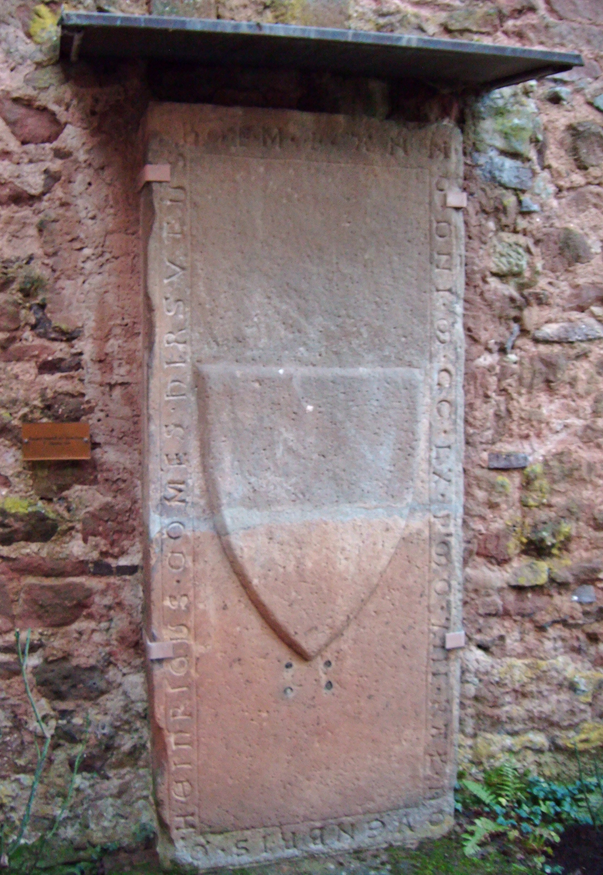 Grabplatte Raugraf Heinrich I. (+1261), Kloster Rosenthal, Pfalz